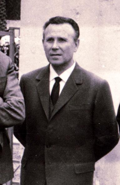 Jose Ortiz Garcia, sculptor